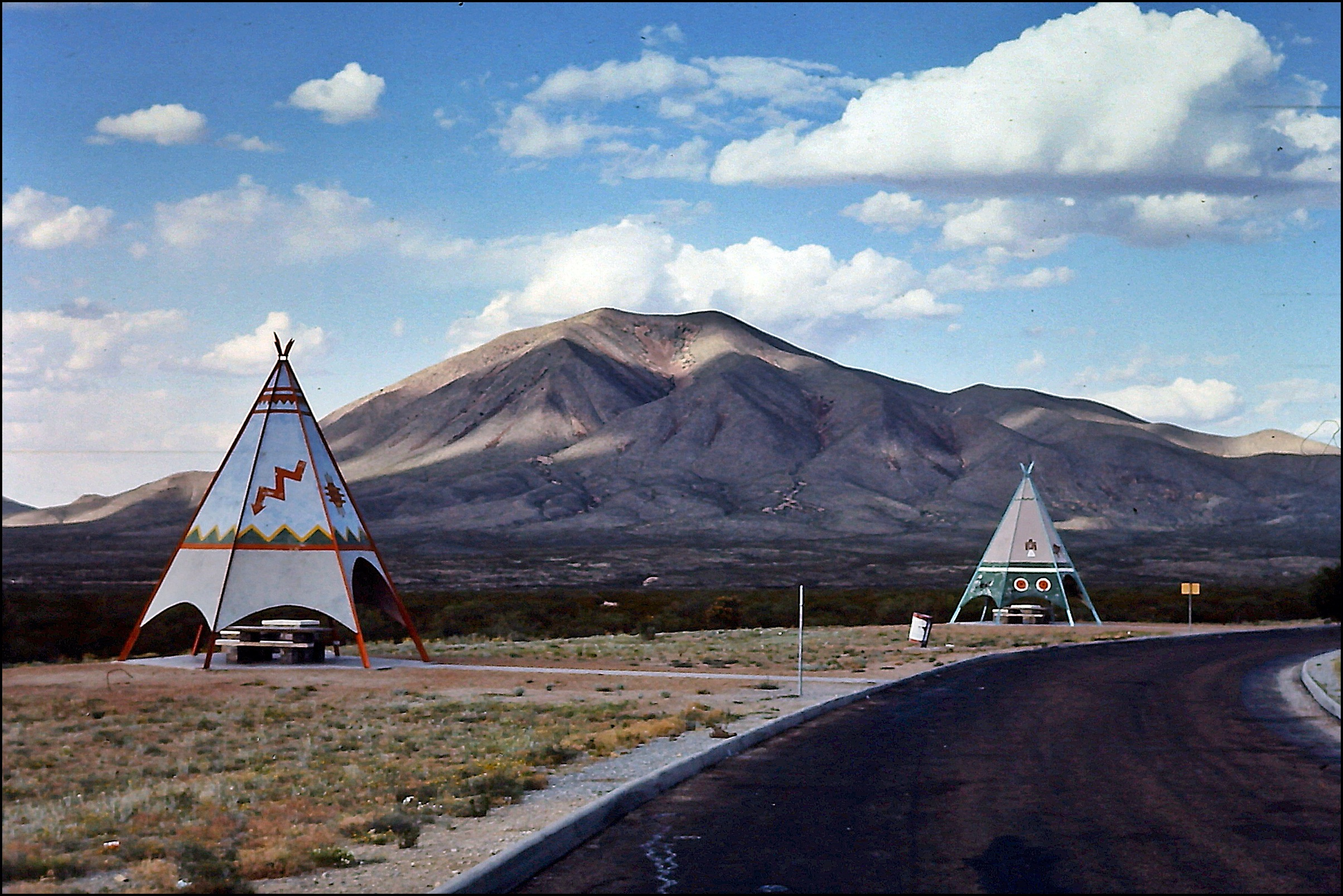 Sierra Blanca Mountains viewable in Texas along I10.